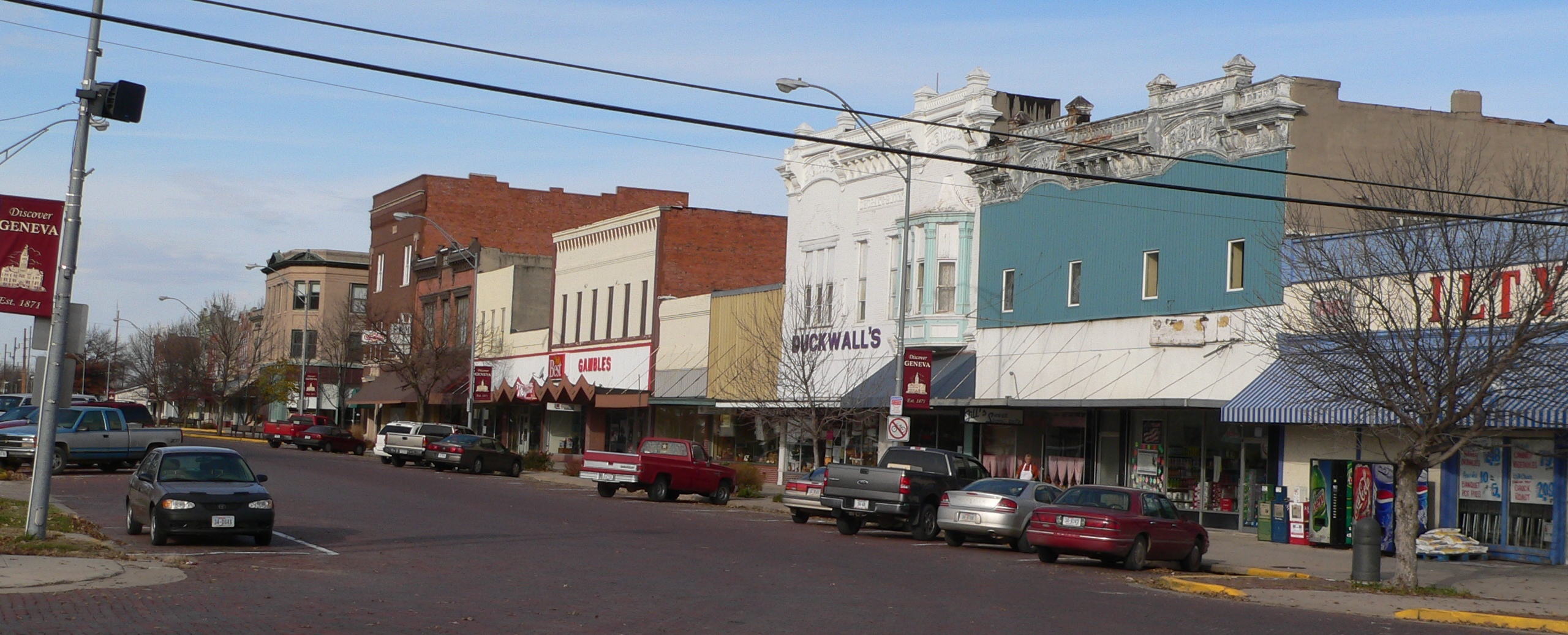 North side of G Street in Geneva, Nebraska, facing west from the corner of 10th and G Streets.